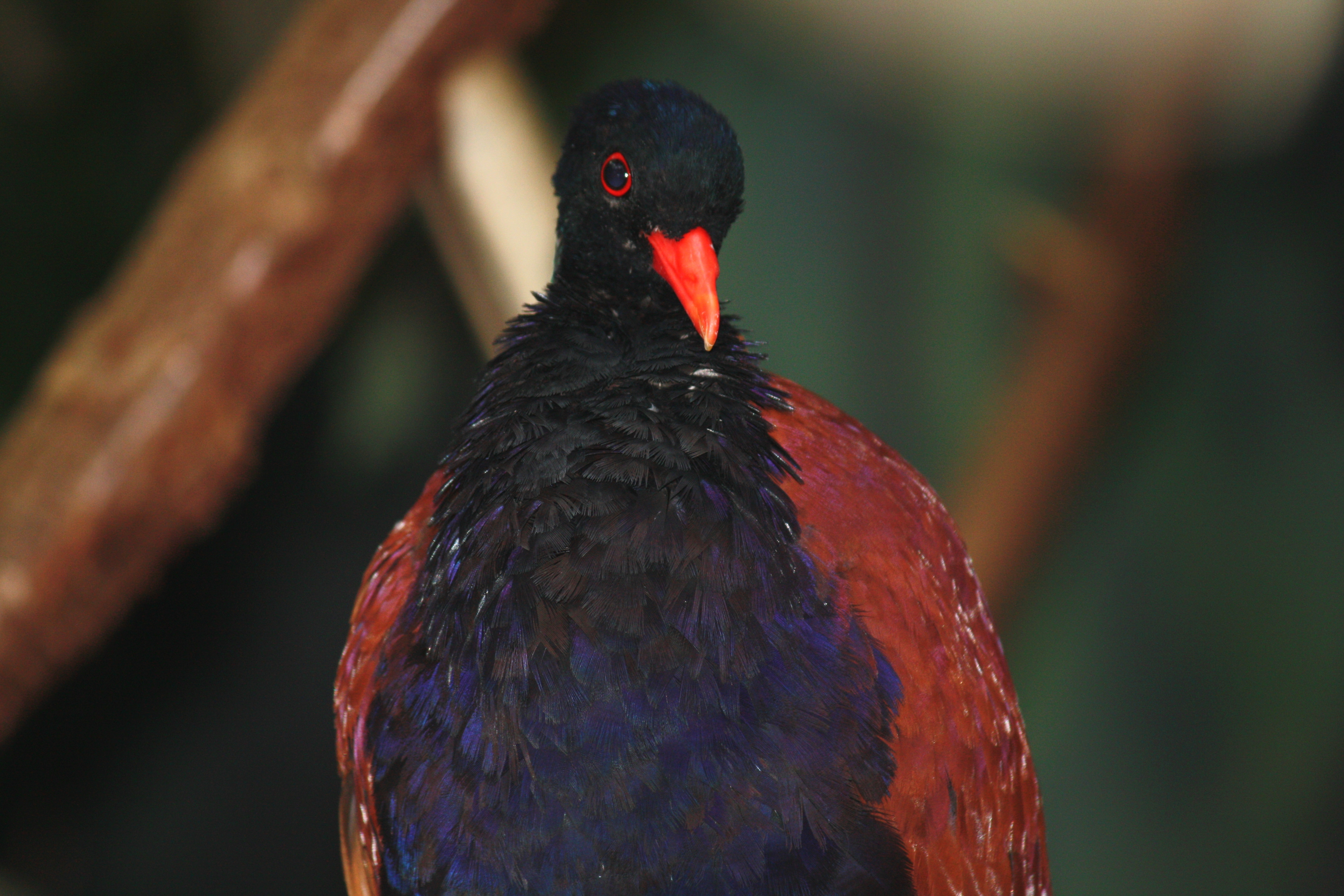 Green-naped pheasant pigeon (Otidiphaps nobilis nobilis) at the Louisville Zoo